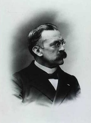 Andreas Theodor Elias Ahlefeldt-Laurvig (1852-1933), Danish count and businsessman